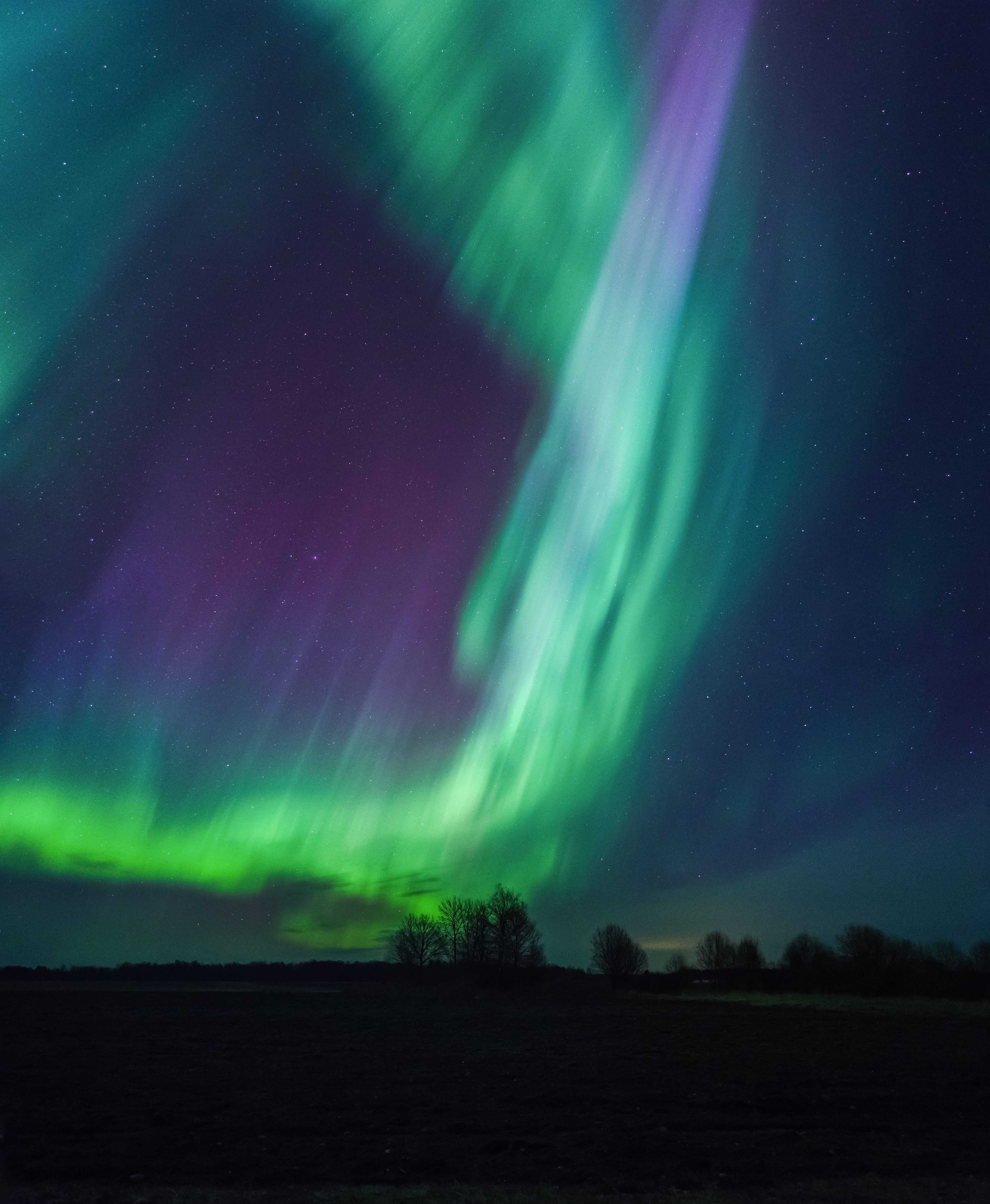 Aurora Borealis in Estonia